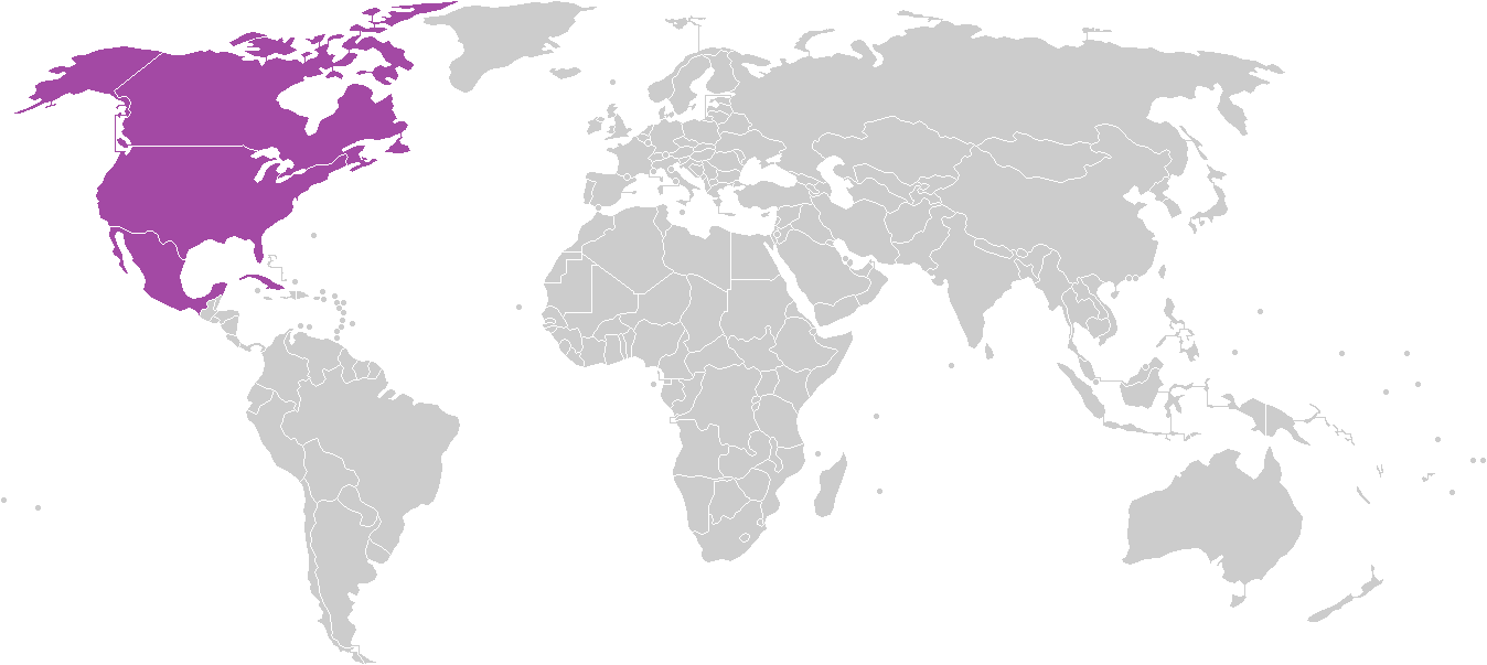 NAFC on World Map